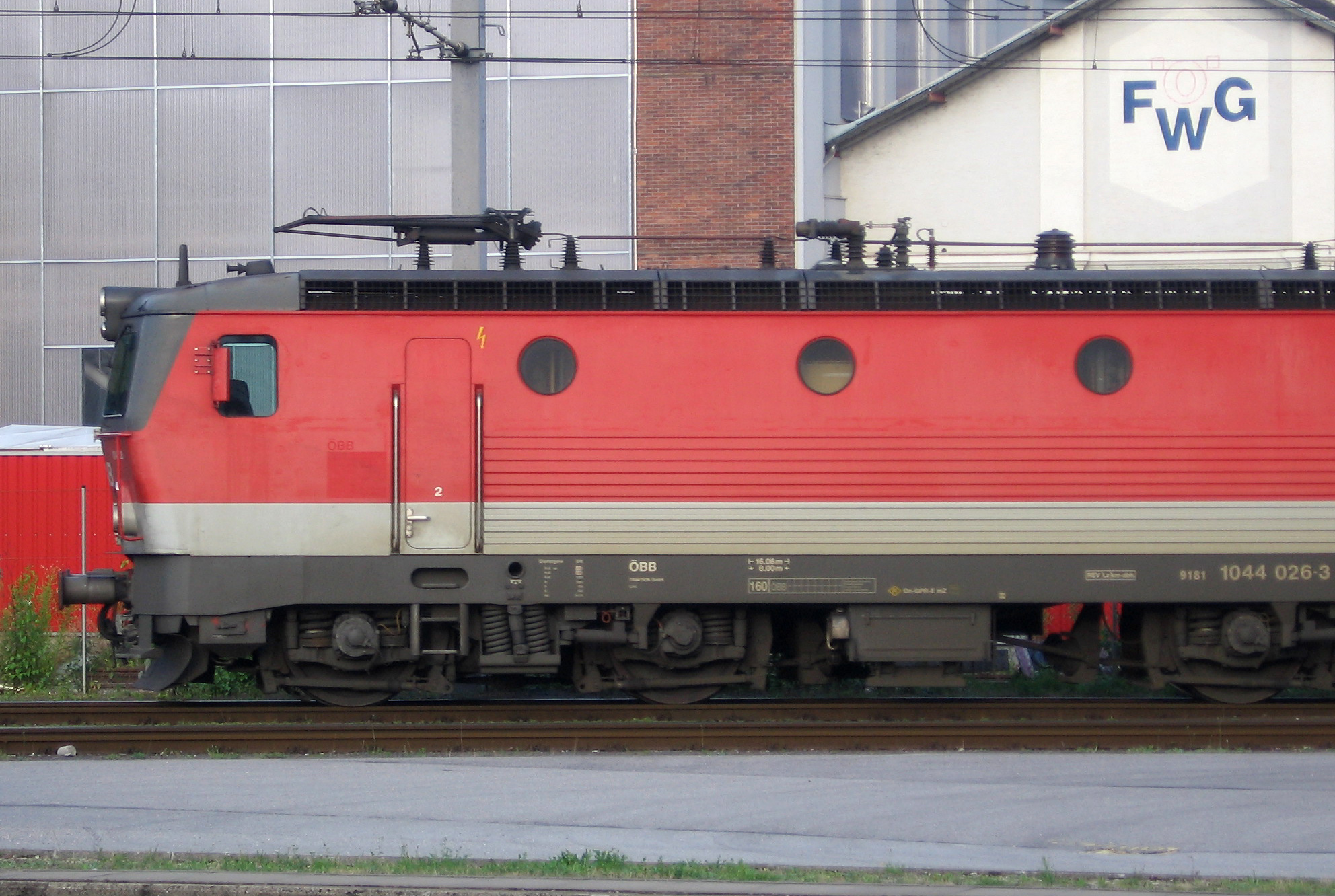 1044 026 in a curve - deformation of secondary suspension is clearly visible